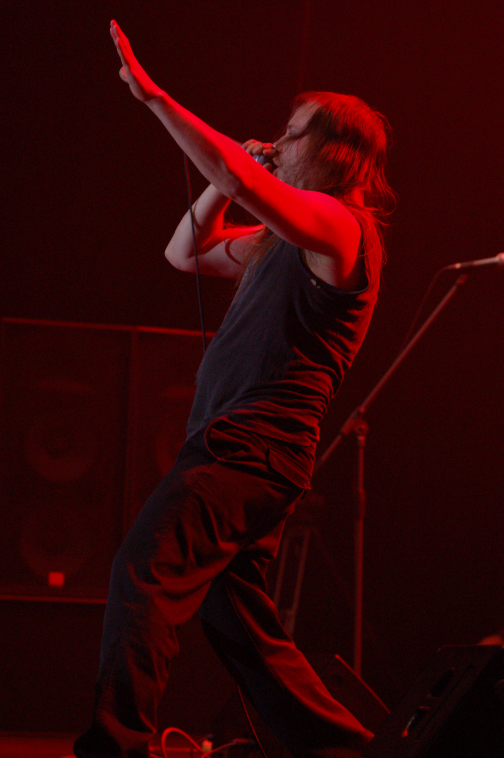 Lars Göran Petrov from Entombed during Metalmania 2007 festival